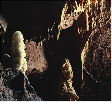 stalagmites in Jaga-ana Cave, Japan